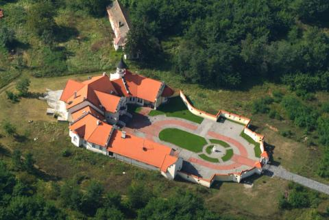 Tét, Hungary, aerialphotography